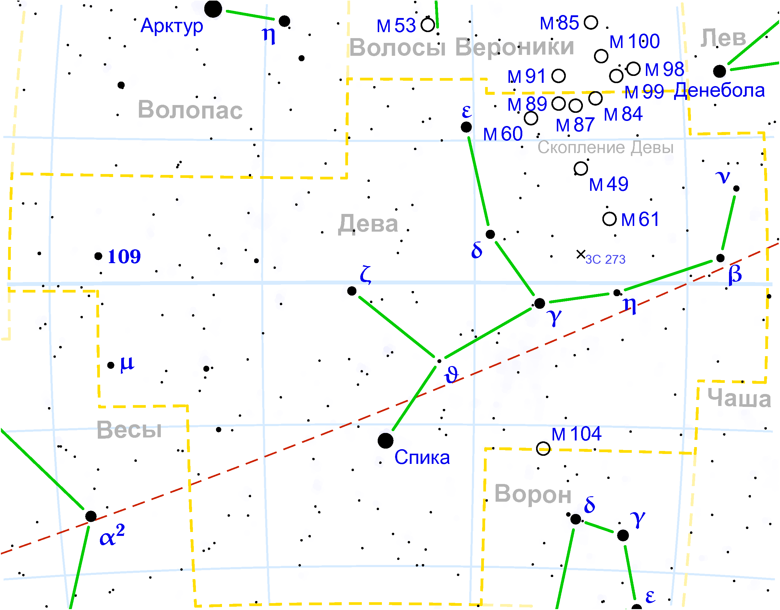 Virgo constellation map in Russian